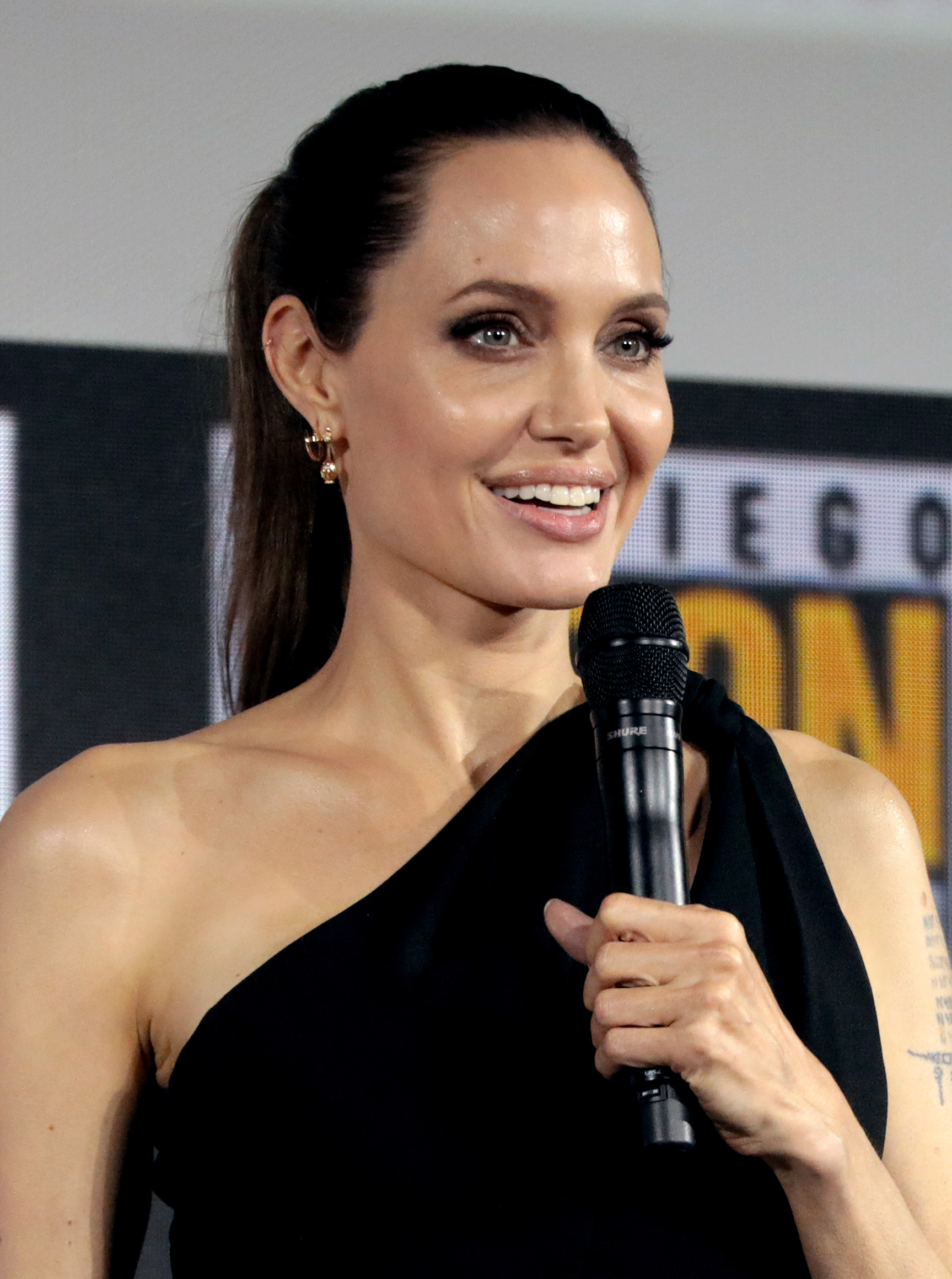 Angelina Jolie speaking at the 2019 San Diego Comic-Con International in San Diego, California.